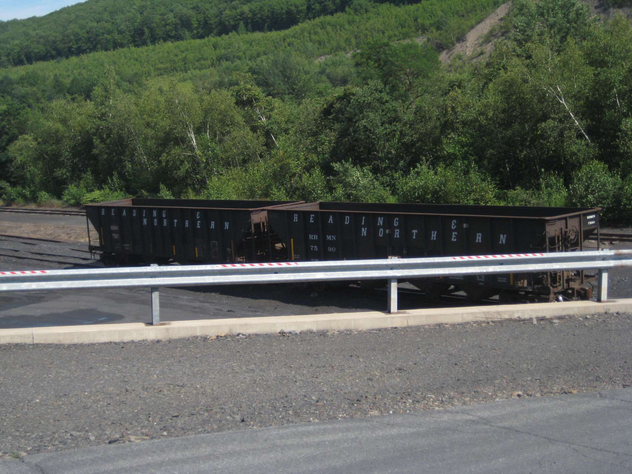 Loaded Anthracite in the train yard of the New St. Nicholas Coal Breaker, Blaschak Coal Company Coal breaker/CPP Plant, Pennsylvania Route 54 Mahanoy City, PA 17948 This view taken from the truck dump driveway of one in a series taken of mine buildings. The railcars belong to Reading Blue Mountain and Northern Railroad (RBMN/RBMNR) also know as the Reading and Northern (note this matches the car stencils).